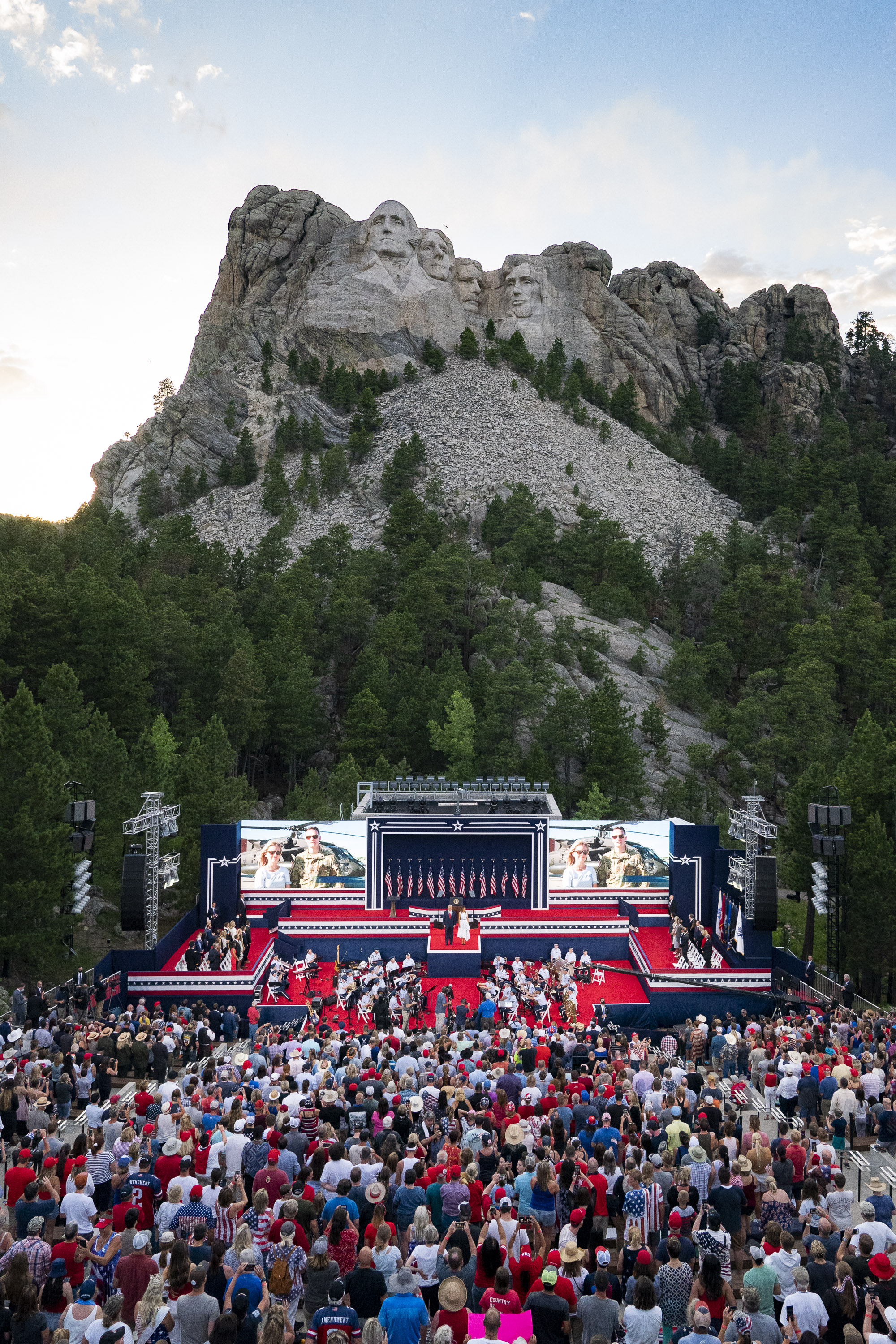 President Donald J. Trump and First Lady Melania Trump arrive to a Fourth of July celebration Friday, July 3, 2020, at Mount Rushmore National Memorial in Keystone, S.D. (Official White House Photo by Tia Dufour)